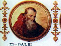 Portrait of Pope Paul III in the Basilica of Saint Paul Outside the Walls, Rome